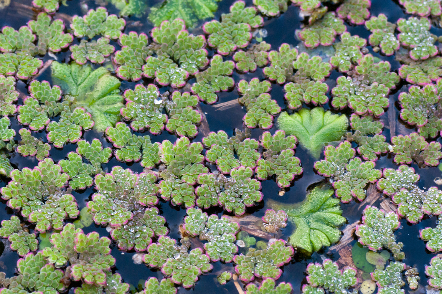 Floating waterplants on the surface of a pond at the banks of the river Elbe. Associated species: Azolla filiculoides and Ricciocarpos natans.